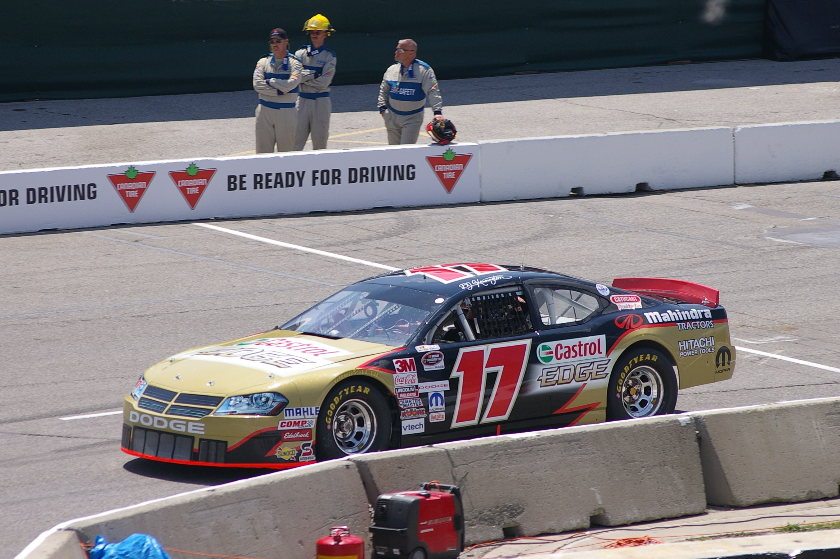 D.J. Kennington during practice for the 2010 Jumpstart 100 at Toronto, on his way to the 2010 NASCAR Canadian Tire Series championship.